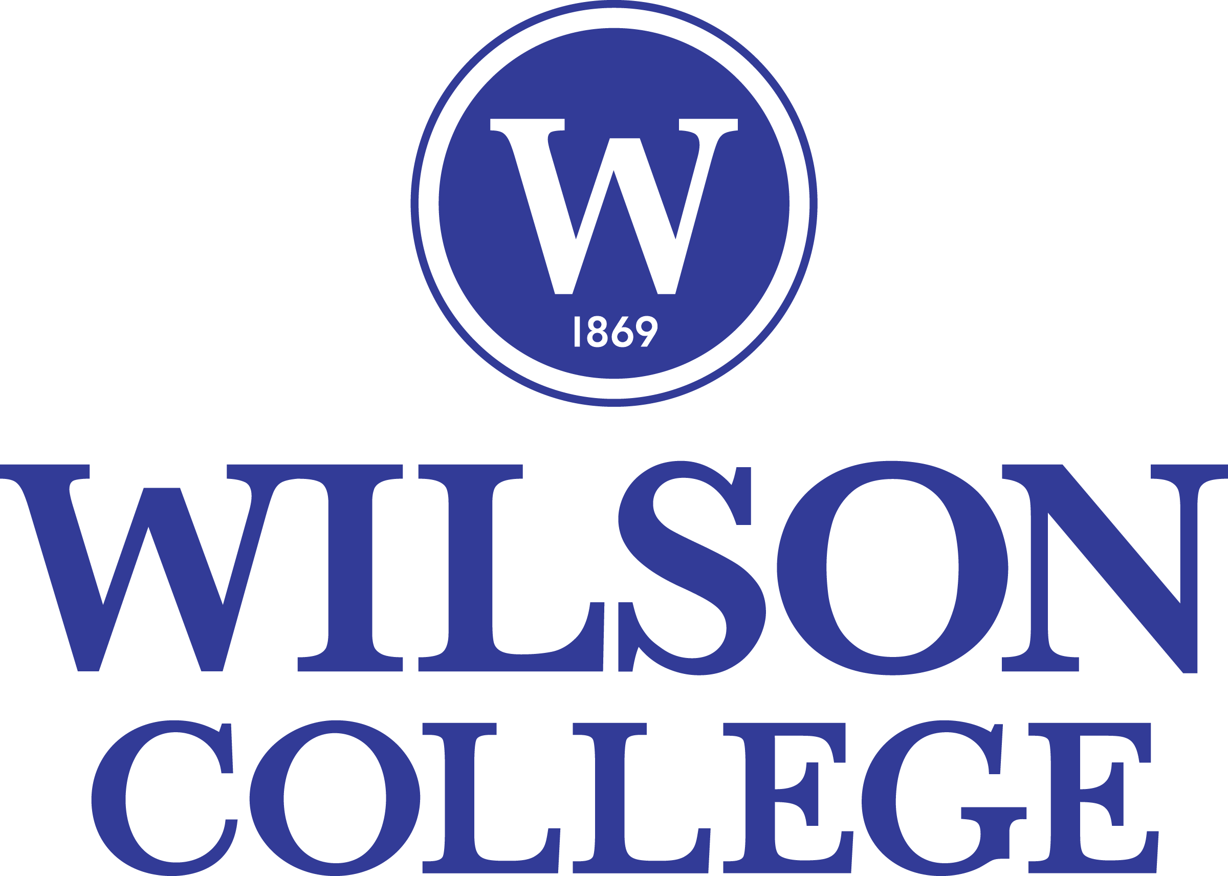 Logo for Wilson College located in Chambersburg, Pennsylvania